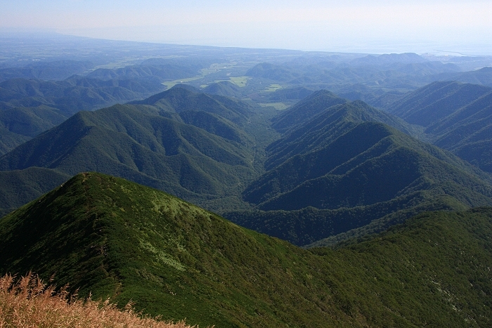 V-shaped valley of Satsurakko River seen from Mount Rakko